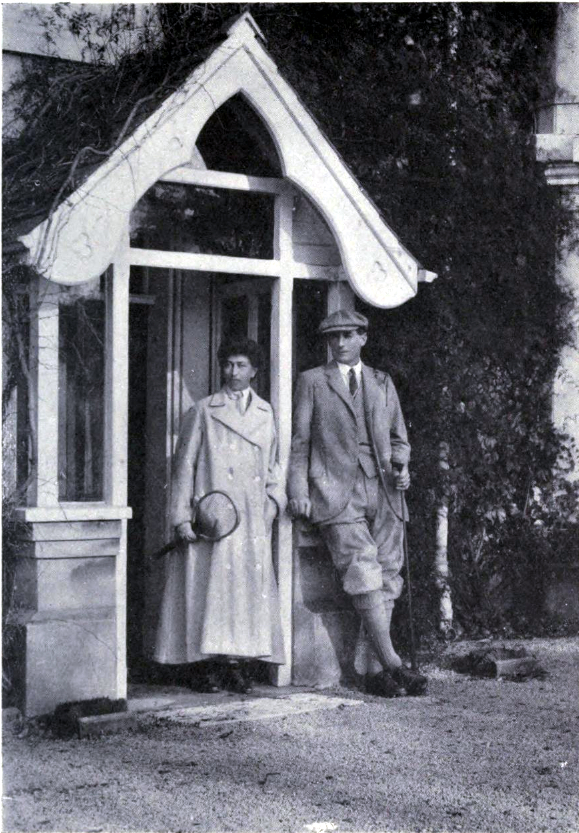 Original description: "Mr. and Mrs. G.W. Hillyard at Thrope Satchville"